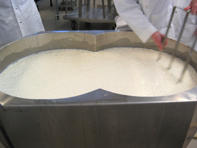 Cutting of Chedder cheese curds after setting